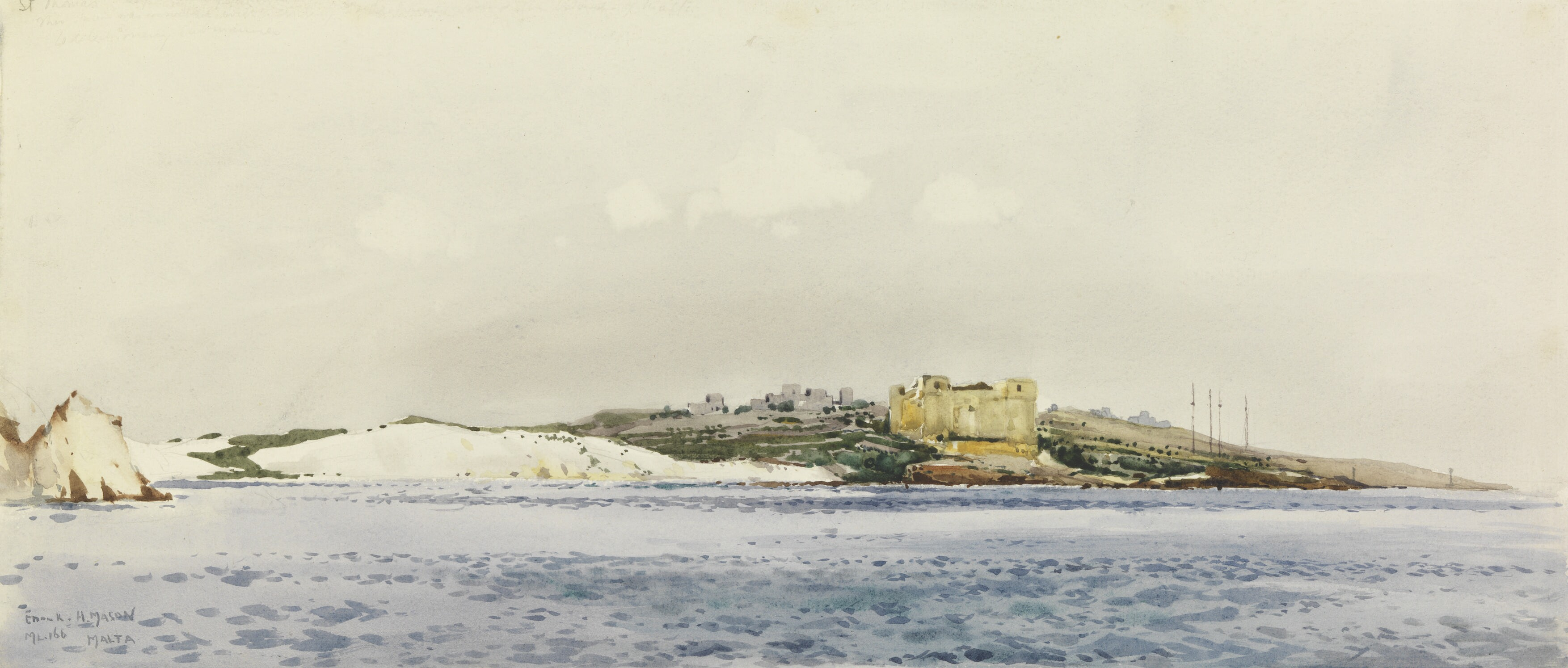 St Thomas' Bay- Hydrophone Listening Station image: offshore view of the coastline of a headland, with white cliffs to the left, fortifications in the centre, and a number of tall aerials towards the right end of the headland.